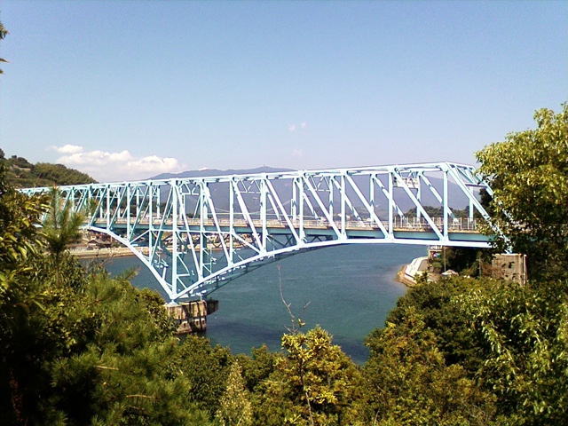 Kamagari Bridge, Hiroshima, Japan